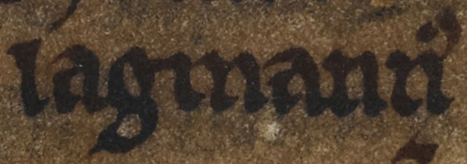 An excerpt from folio 33v of the Chronicle of Mann. The excerpt reads in Latin "Lagmannus". The man referred to is Lǫgmaðr Guðrøðarson, King of the Isles.